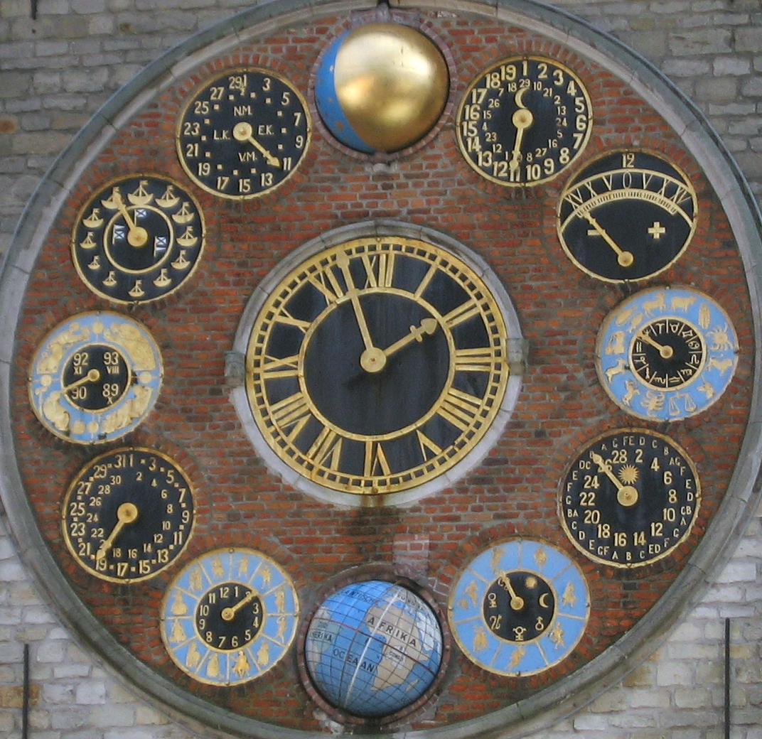 Clock faces of the Zimmer tower at Lier, Belgium. The centre dial shows the time in hours and minutes. Around the centre, clockwise from top: phase of the moon metonic cycle and the epact equation of time zodiac solar cycle and the dominical letter the week the Earth's globe the months the Calendar dates the seasons the tides the age of the moon